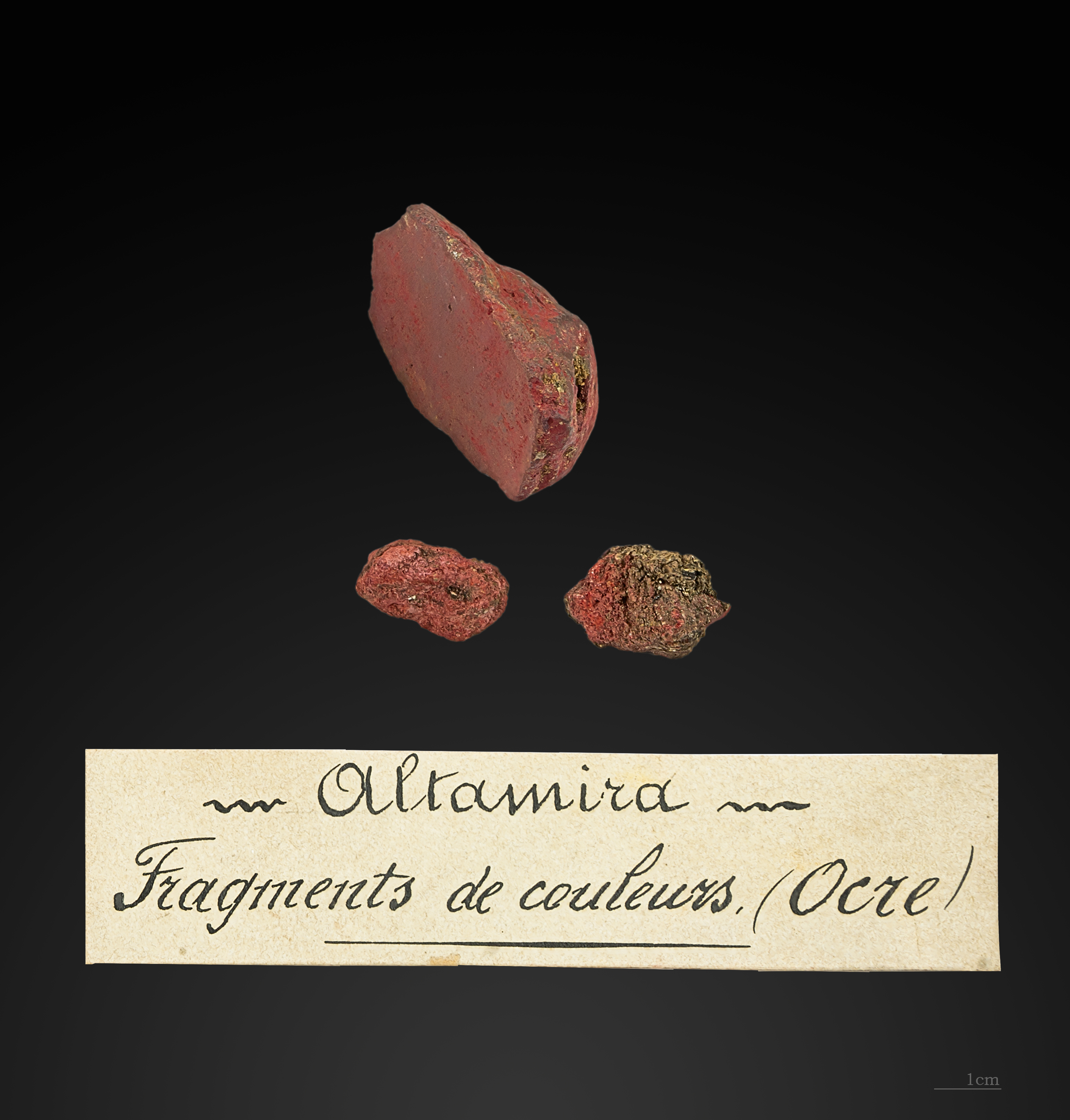 Prehistoric pigment. Cantabrian Lower Magdalenian layer (15 000 before present) of the Altamira cave. Excavations Edouard Harlé 1881.